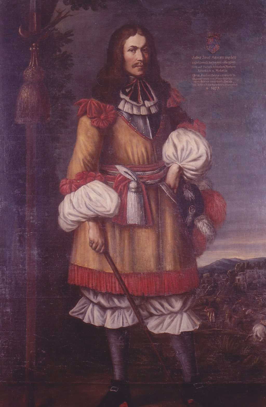 Jobst Josef Moscon Freyher, nobleman